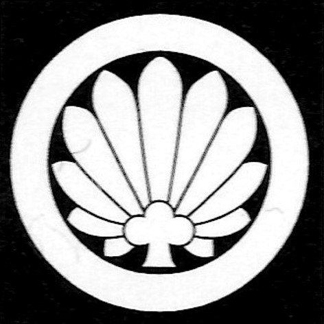 Coat of arms,Yonekizu clan